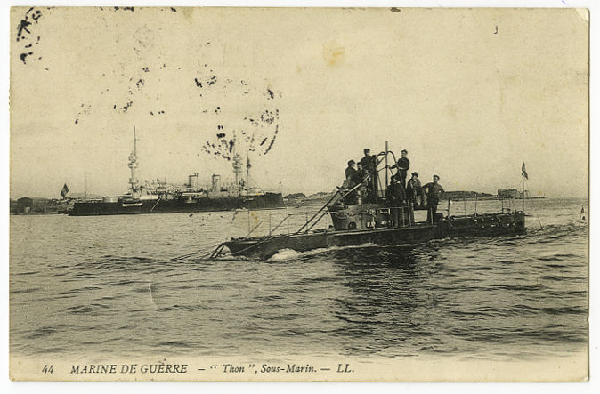 Naïade-class submarine Thon (foreground), with an unidentified warship in the background